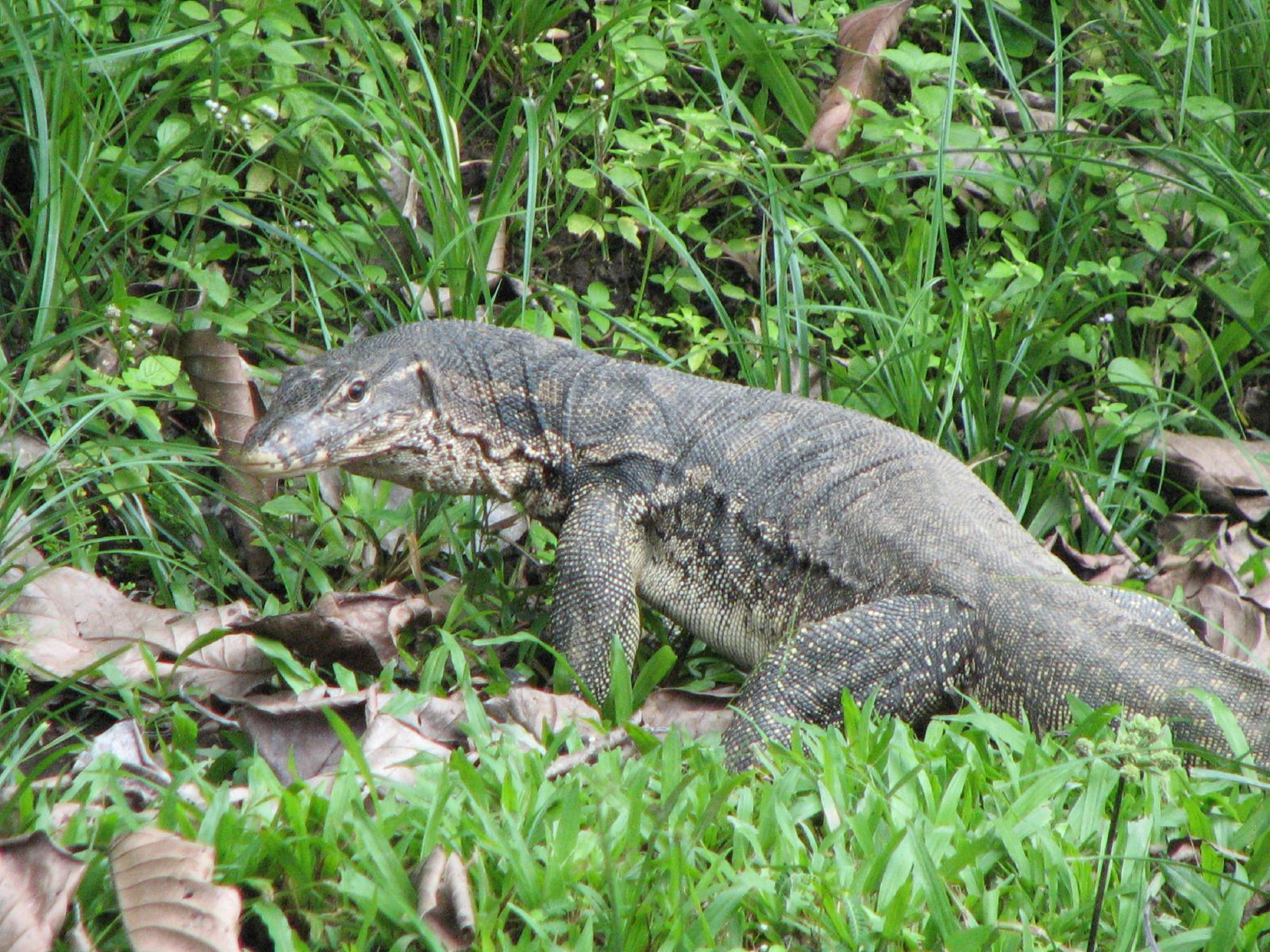 Varanus salvator — Water Monitor; about 1.5m long. In the Danum Valley Conservation Area on Borneo.